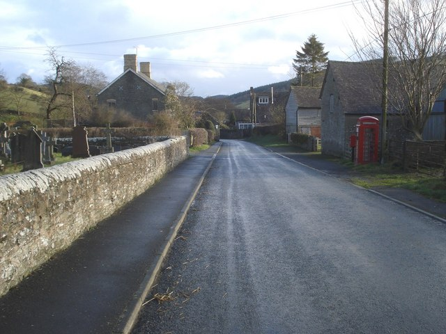 Chapel Lawn village, near to Chapel Lawn, Shropshire, Great Britain. View eastwards along the village street. Small village but has its own community web site (must get a picture of the lupin field) - Link